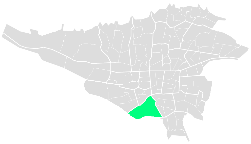 Region 19 of Tehran